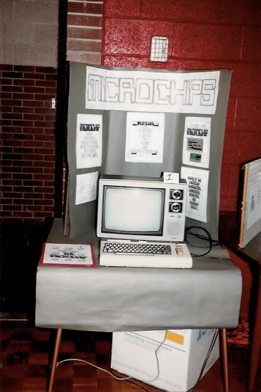 This early Wozniak photo inspired me to have my Mom track down this photo of my science project circa 1983 or so. Updated: 1986... computer is from 1983.